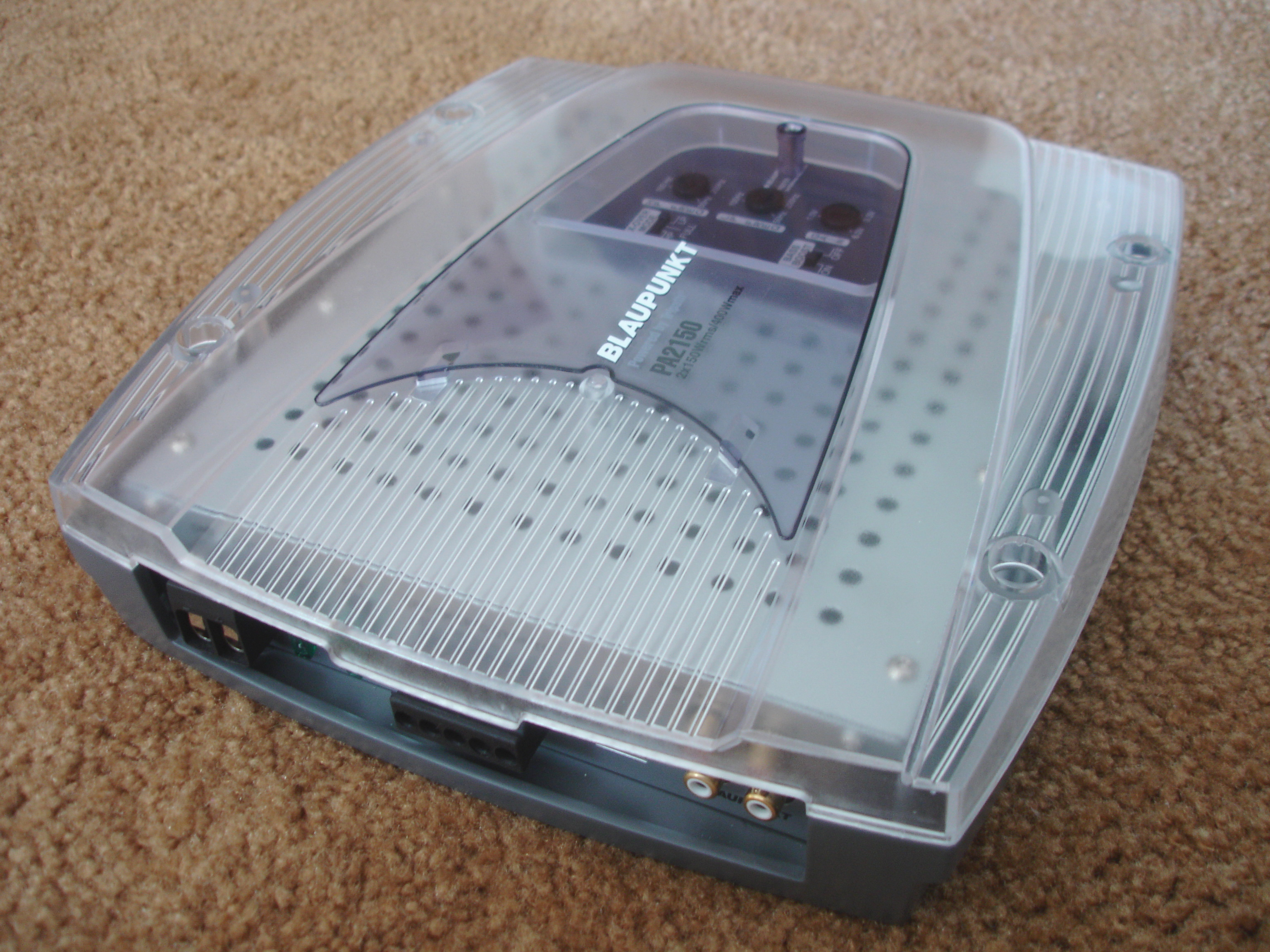 Blaupunkt PA2150 2-channel 150 watt RMS Class T amplifier, top profile view.